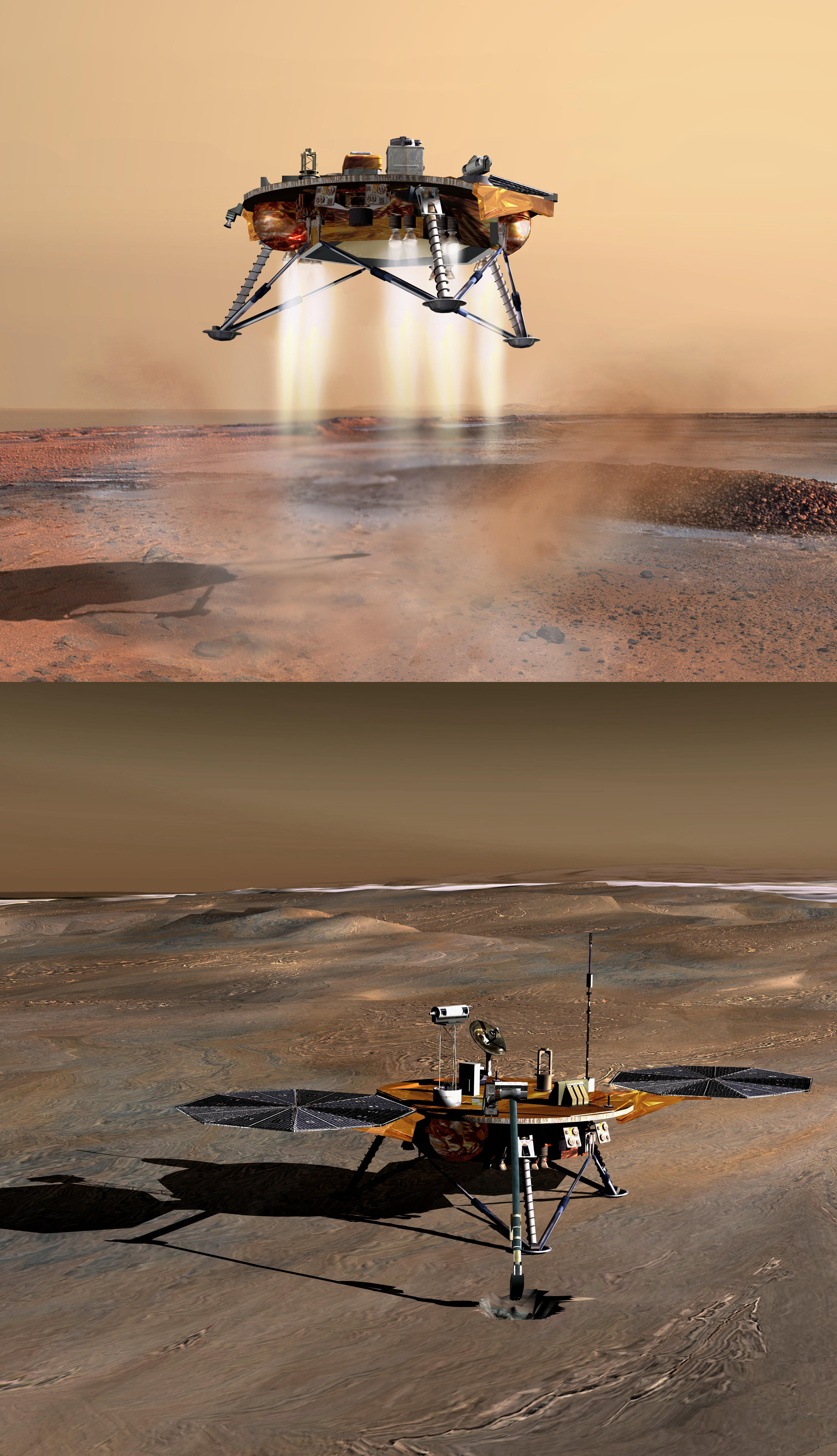 NASA Mars Lander, stack of two images from NASA